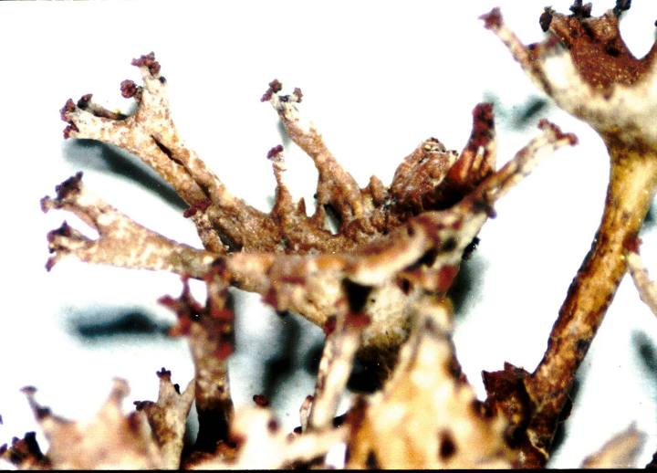 Cladonia multiformis G. Merr. (photograph of a herbarium specimen taken through a dissecting microscope (x14) showing a proliferating cup with dark brown apothecia) Growing with moss on granite boulder along S bank of the St. John's River, 20 miles W of Fredericton, New Brunswick, Canada; collected and identified by A. Norden and B. Norden (No. 642, 8 Jun 1974); specimen is now in the Lichen Herbarium of the New York Botanical Garden.